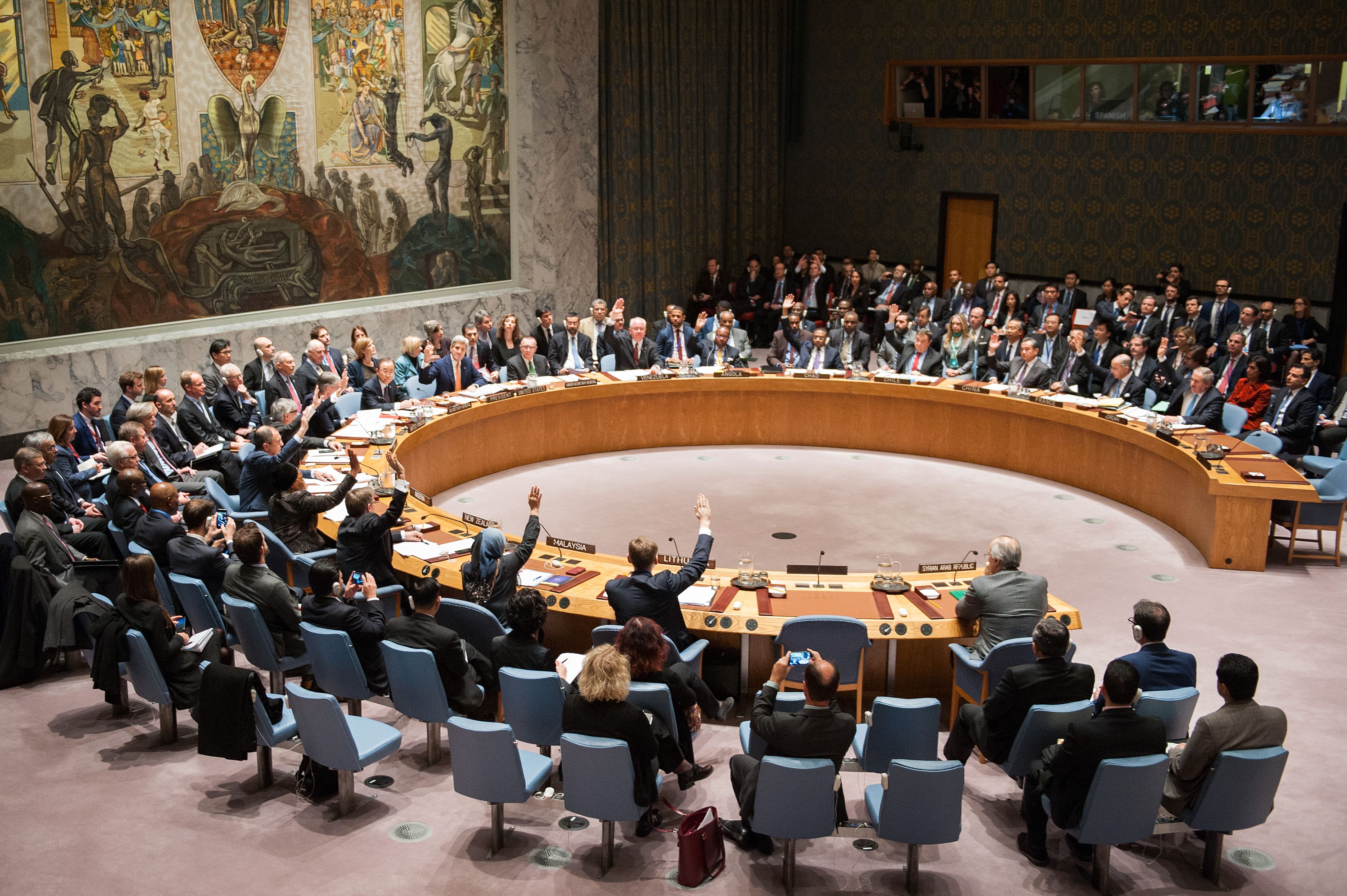 U.S. Secretary of State John Kerry and foreign leaders cast a vote during UN Security Council meeting on Syria, on December 18, 2015, at the United Nations in New York City, NY. [State Department photo/ Public Domain]